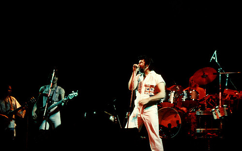 Gentle Giant, Chateau Neuf, Oslo, Norway